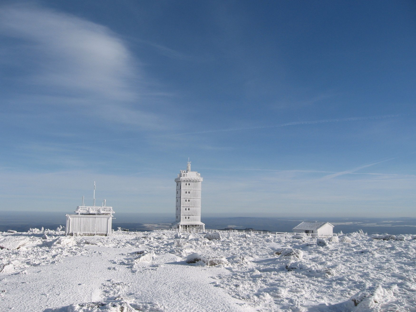 Germany / Harz: mountain Brocken 1141 m